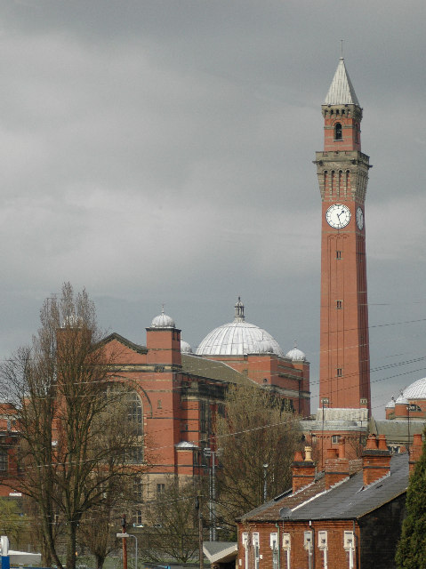 University of Birmingham. The Great Hall and Clock Tower of the University, taken from Bournbrook